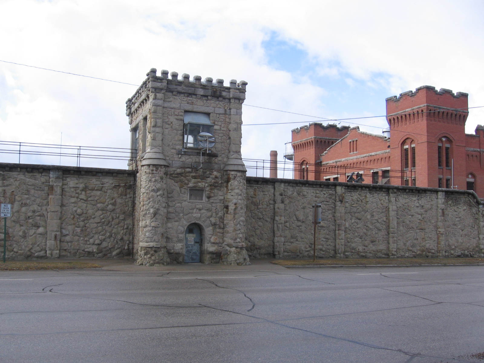 A view of Tower 7 with Cellblock 1 in the background of the Old Montana Prison